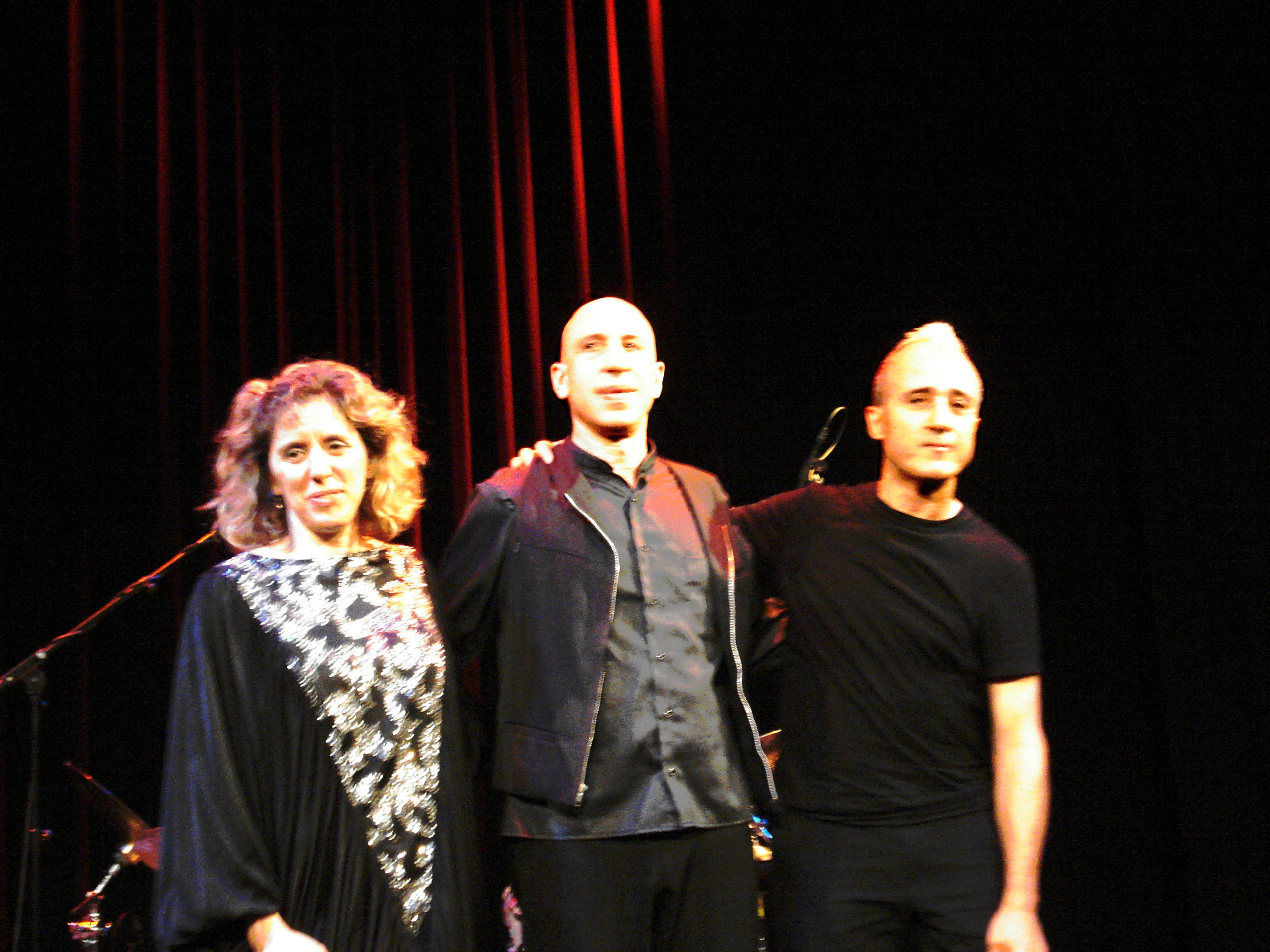 Elliott Sharp´s Carbon (Elliott Sharp, Zeena Parkins, Bobby Previte)